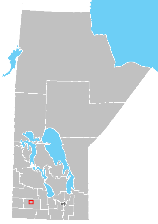 Location of Brandon, Manitoba